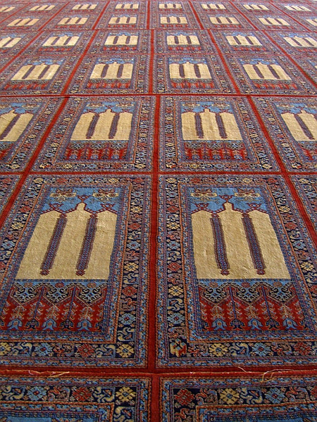 The Sultan Ahmet Camii Prayer Rug Saph: The Blue Mosque Istanbul, 2006 Photo Credit Jan Cadoret